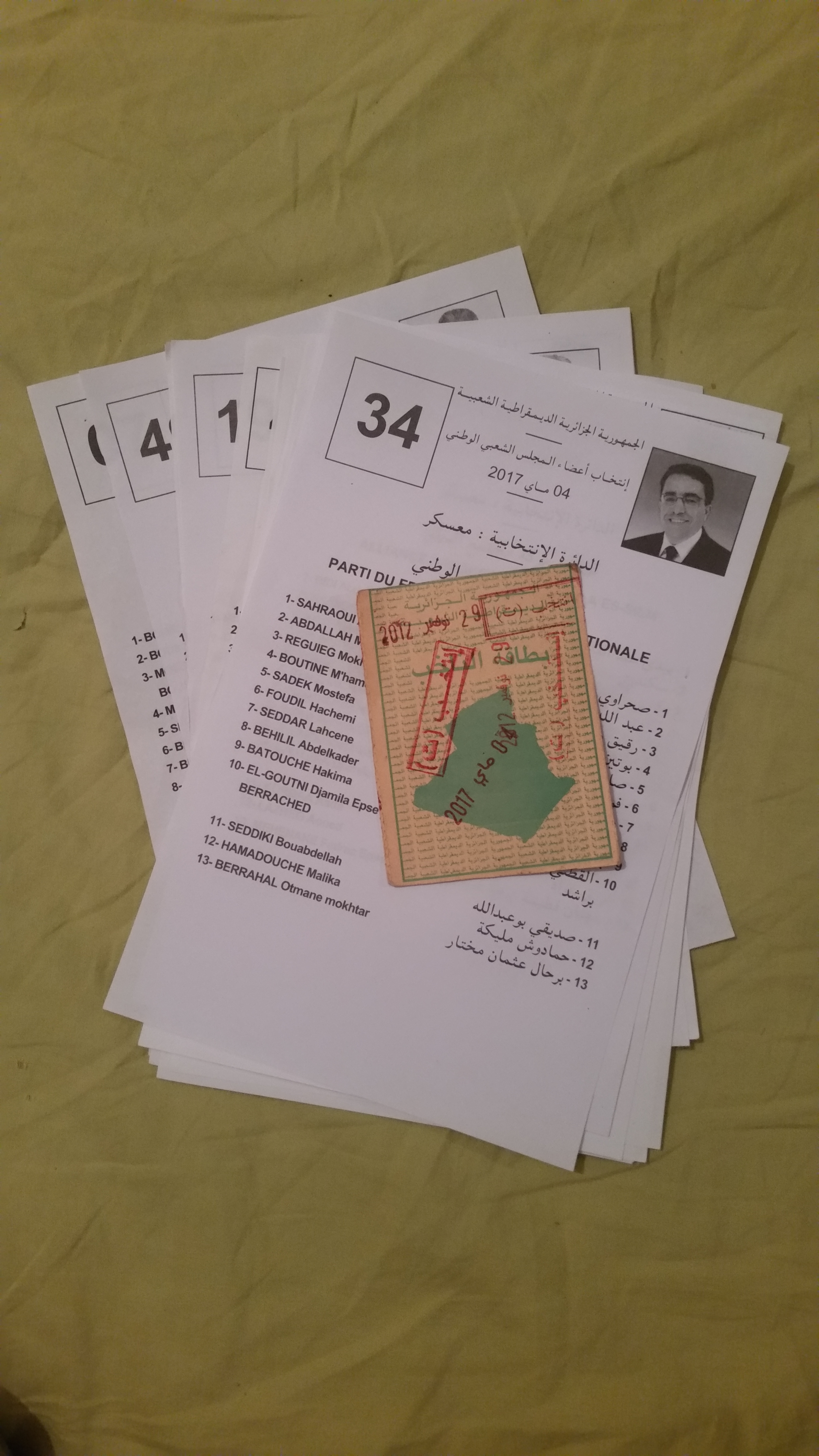 Elections Assembly Algeria 04 may 2017